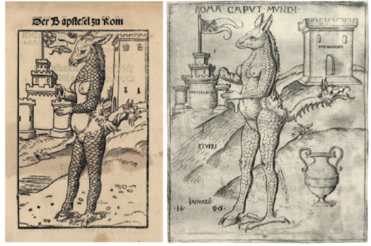 Sources for the Tiber River monster (folio 90 of the Augsburg Boom of Miracles) (1550s). Left image by Lucas Cranach the Elder; Right image by Wenzel von Olmüz.